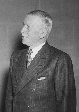 Anning S. Prall, Congressman and Federal Communications Commission Chairman.